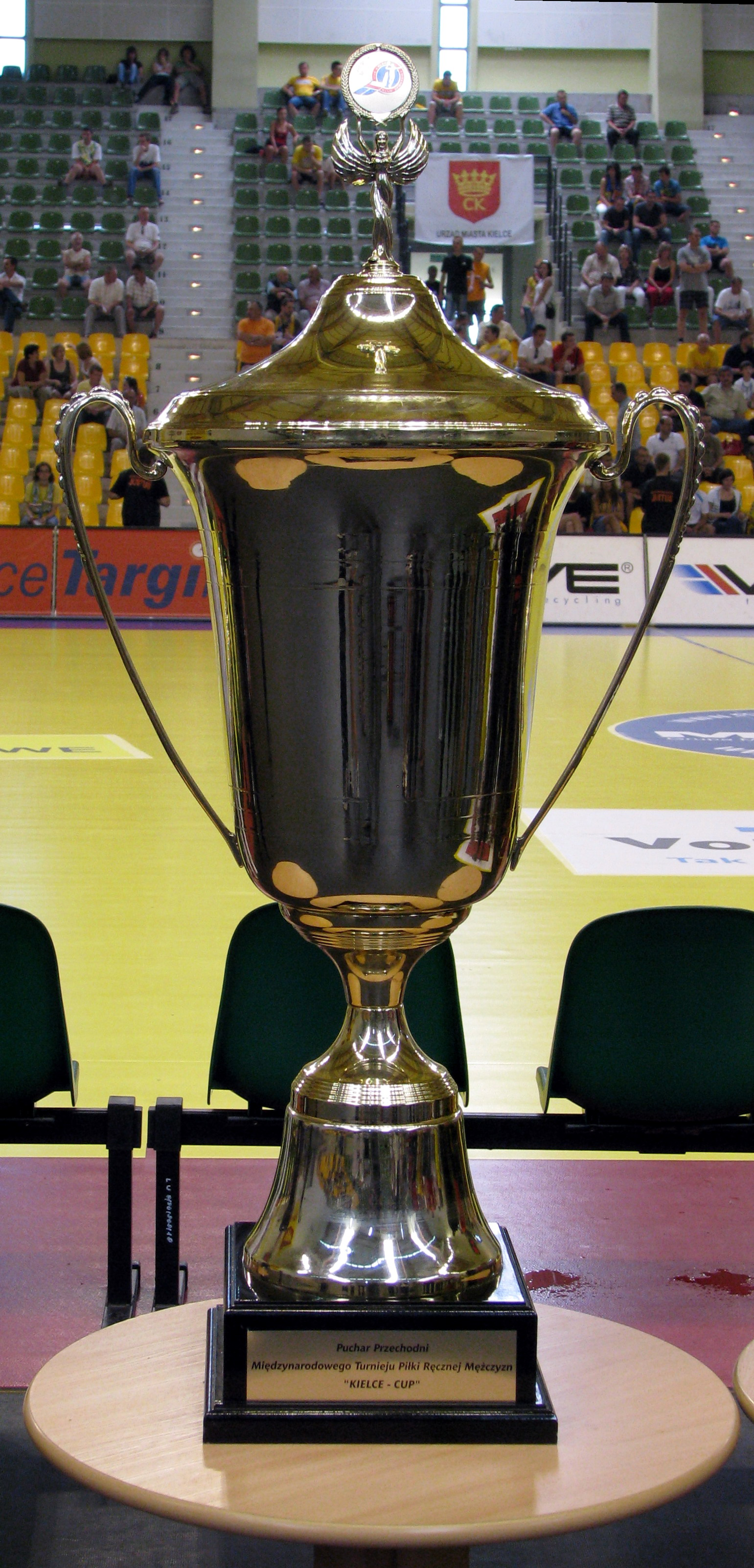 Kielce Cup trophy